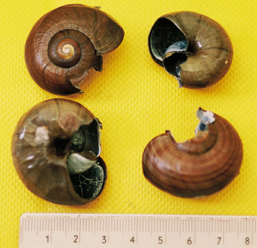 Possum-predated Powelliphanta traversi snail shells. Studio image of four shells and ruler.